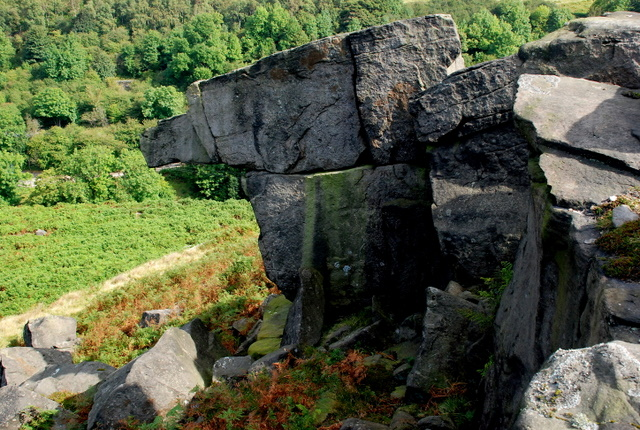 Rock outcrop on Gibbet Moor At the northern extreme of Gibbert Moor is a rocky area before the land falls away to the brook in the valley. This rock looks somewhat precarious and can be seen from the main road in the valley below.